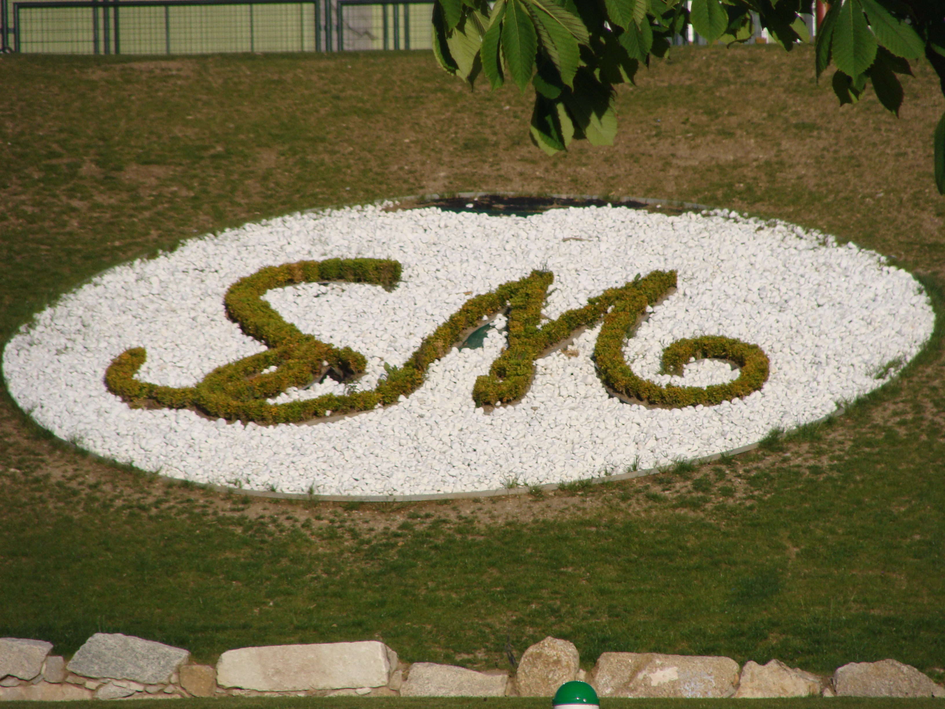 Oza's Park, in Corunna, Galicia, Spain